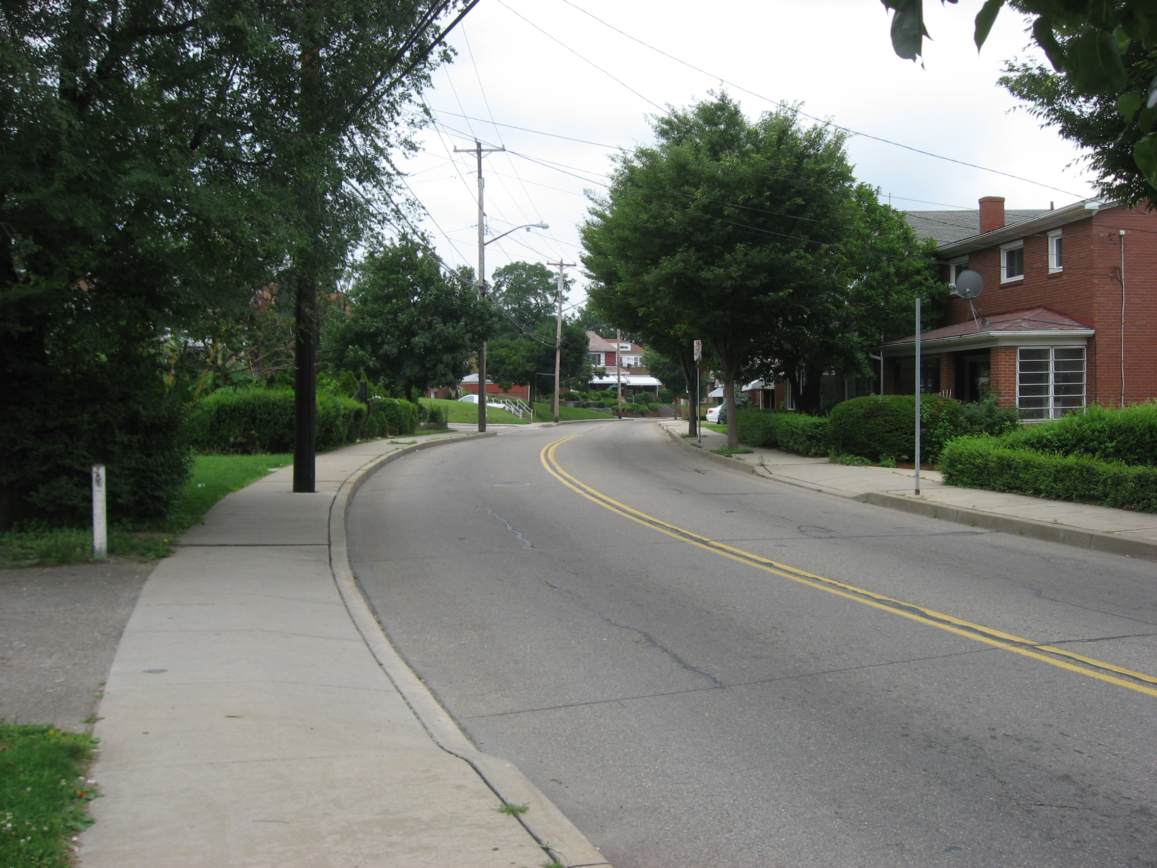 Southward along Pioneer Avenue in the Brookline neighborhood of Pittsburgh, Pennsylvania, United States.